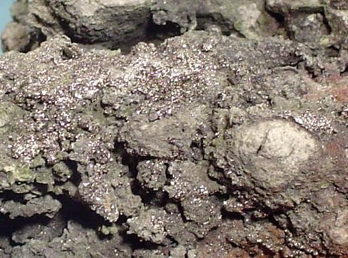 Rheniite Locality: Kudriavy (Kudryavyi) volcano, Iturup Island, Kuril Islands, Sakhalinskaya Oblast', Far-Eastern Region, Russia (Locality at ) Size: 5.5 x 4.2 x 3.4 cm. Rheniite is the only known mineral with Rhenium as its primary metallic constituent and as such is a fascinating species. It occurs at a volcanic vent in this remote area of Russia, and scientists have to climb down into hot crevasses to find the stuff. This is a REALLY RICH specimen with LOTS of silvery bright microcrystalline rheniite.